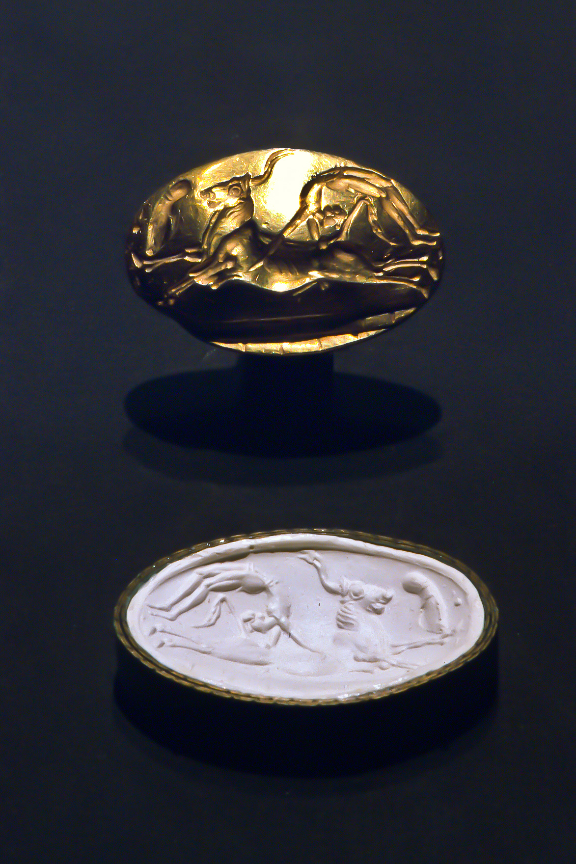 Minoan Seal, 1700 BC, Badisches Landesmuseum Karlsruhe - Special Exhibition 2001